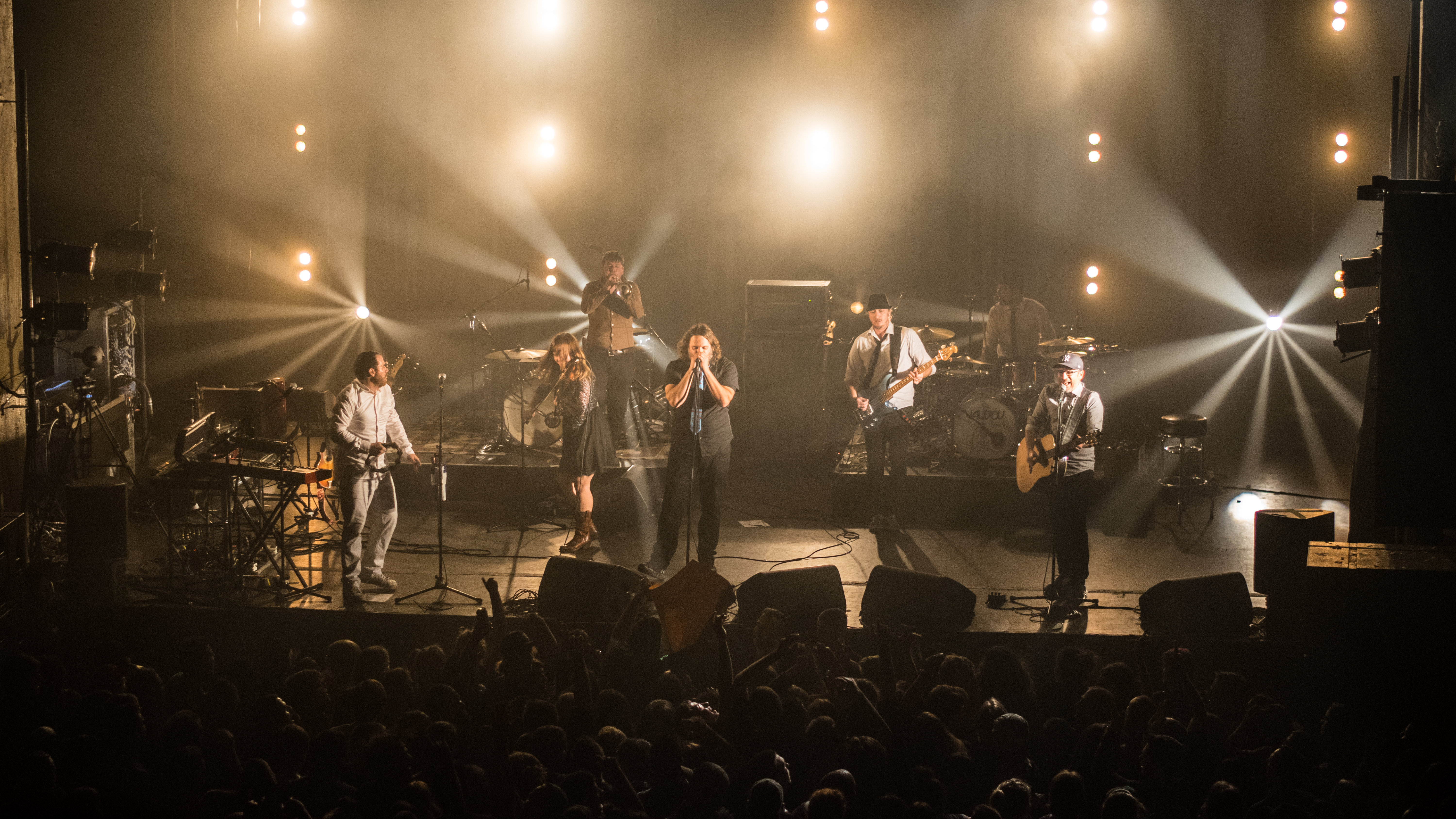 Les Cowboys Fringants in concert at the Métropolis, Montreal, Quebec, Canada.